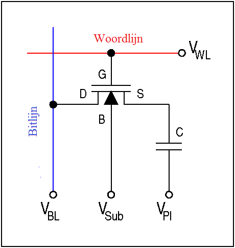 Schematics of the 1T-1C-ell